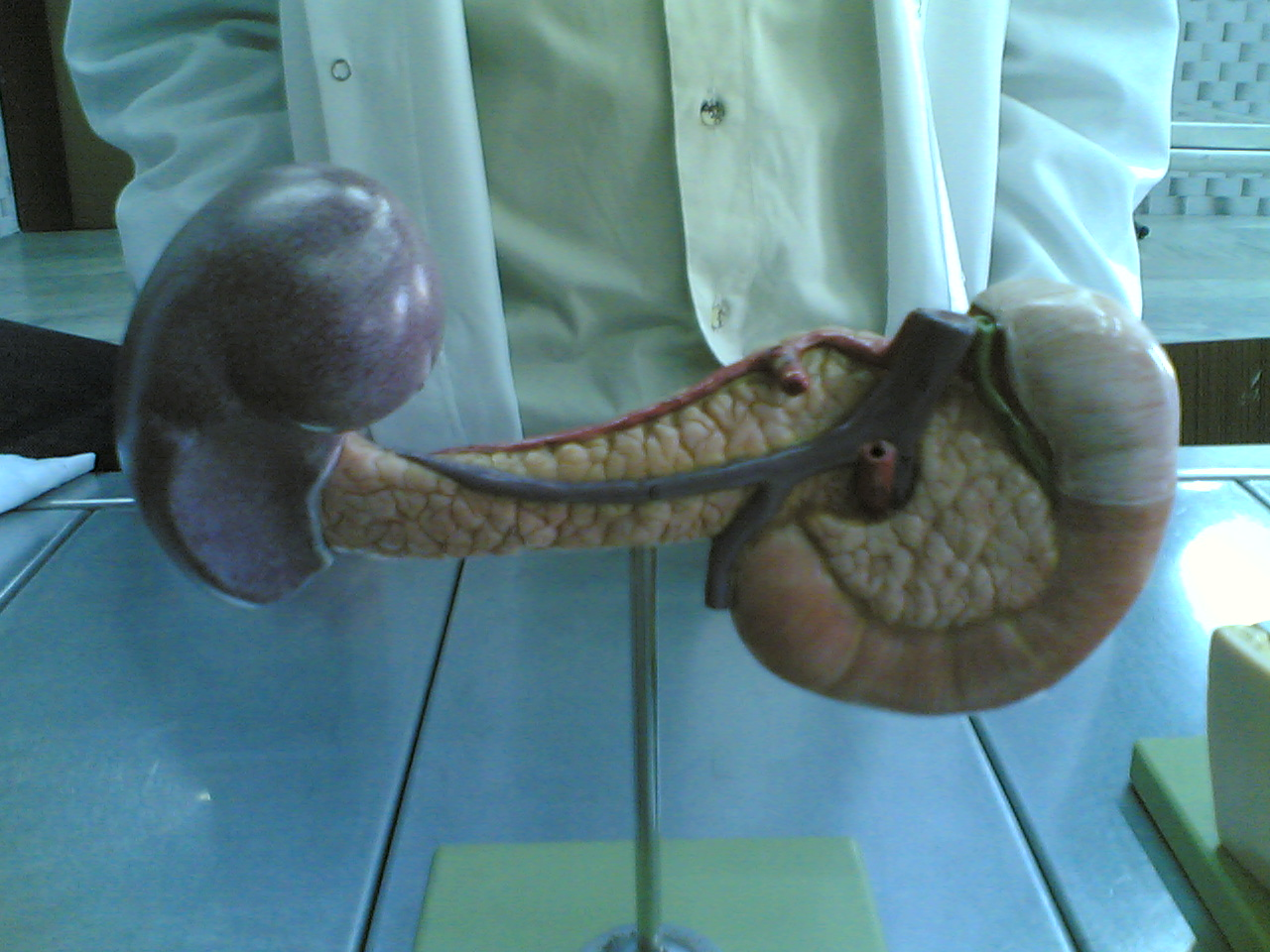 Pancreas model, showing the related structures duodenum and spleen from the posterior aspect